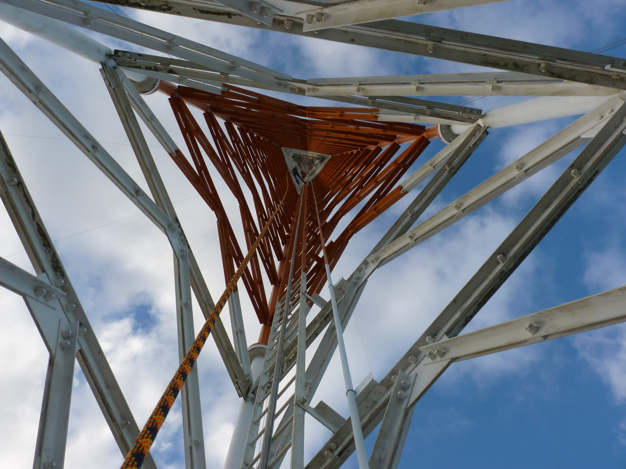 Abseiling down the first of the 10 42m sections of VLF Woodside the former OMEGA Transmitter.